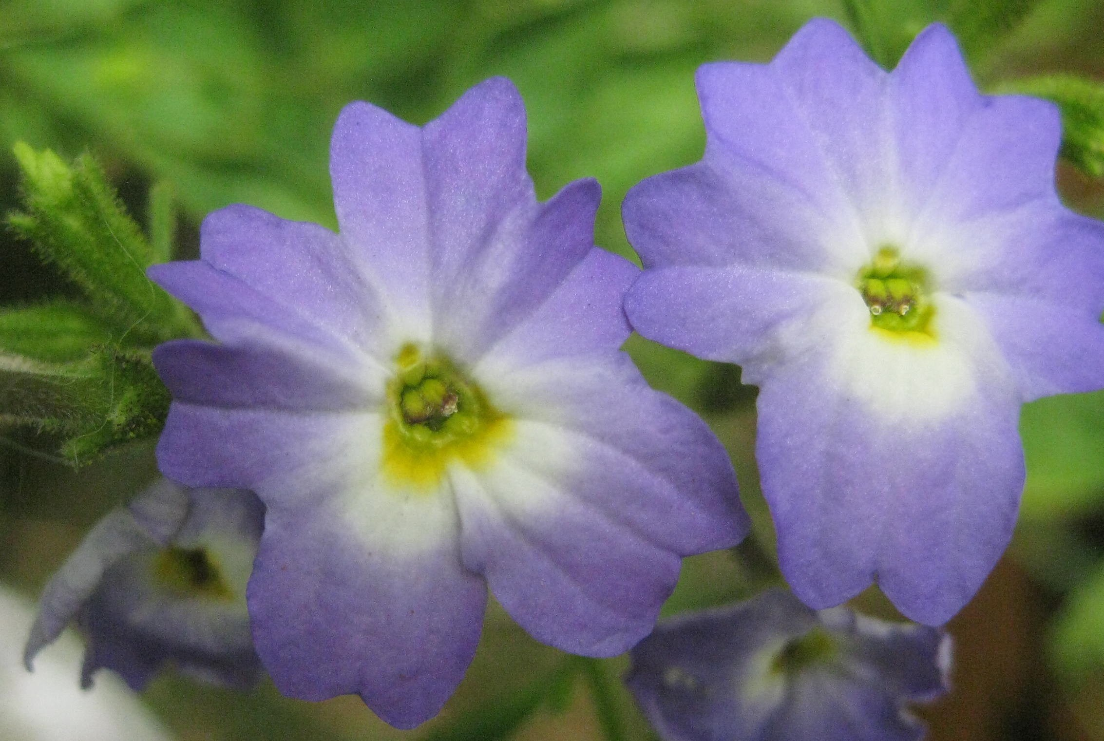 Close-up of flowers of Browallia americana growing in Maryland, self-seeded, original source of seeds was the Chanticleer garden, near Philadelphia, PA.